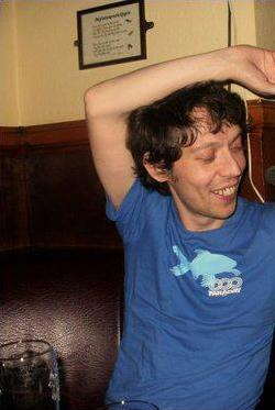 Photo of John 'Jackie' McKeown of the bands The Yummy Fur and 1990s.